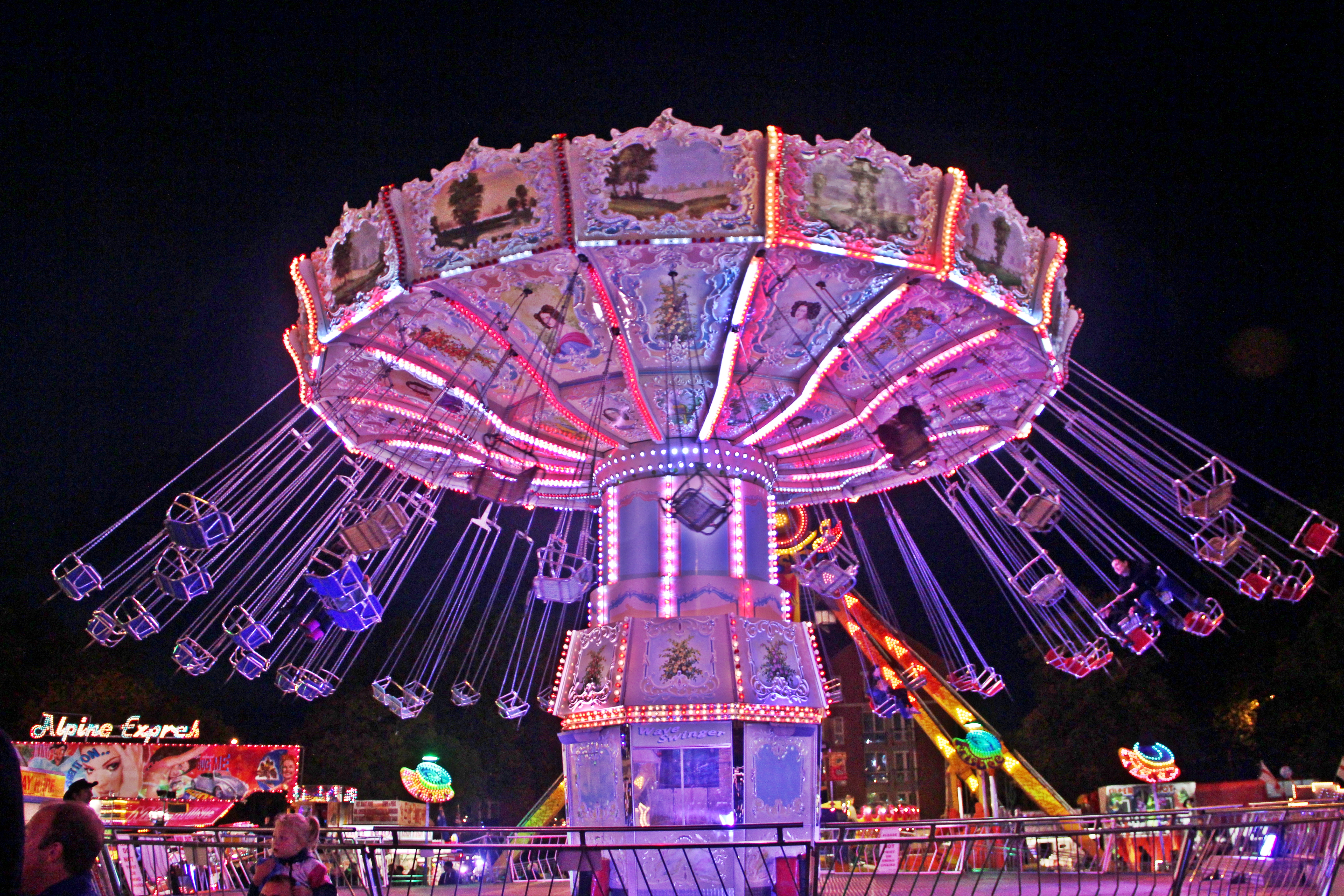 Nottingham Goose Fair, an evening ride.